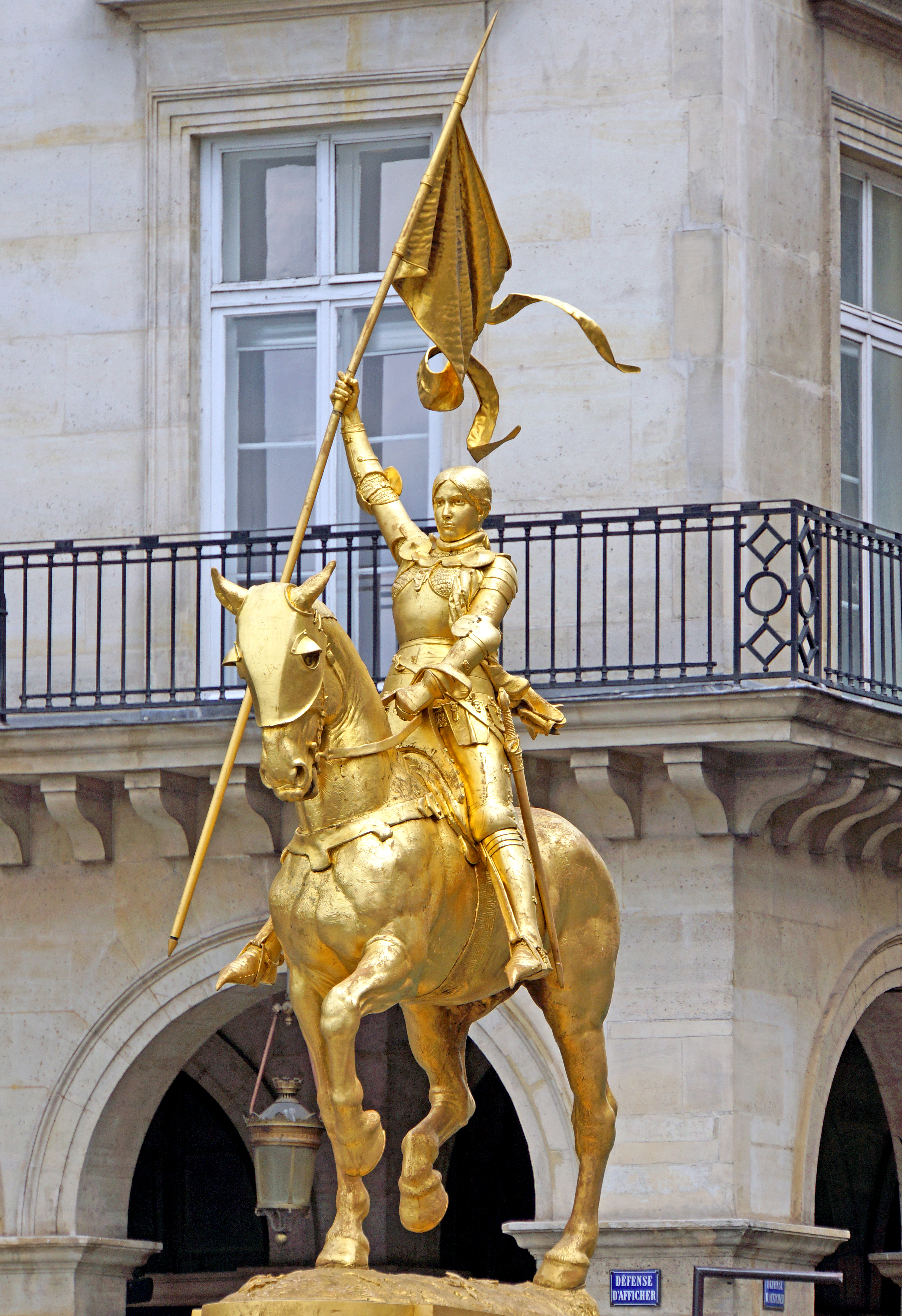 Jeanne d'Arc is an equestrian sculpture of Joan of Arc by Emmanuel Frémiet inaugurated in 1874. Joan of Arc (1412–1431), said she received visions of the Archangel Michael, Saint Margaret and Saint Catherine instructing her to support Charles VII and recover France from English domination late in the Hundred Years' War. Several swift victories by her led to Charles VII's coronation at Reims. She was captured, convicted and then burned at the stake on 30 May 1431, she was 19 years of age. Twenty-five years after her execution, an inquisitorial court authorized by Pope Callixtus III examined the trial, pronounced her innocent, and declared her a martyr.